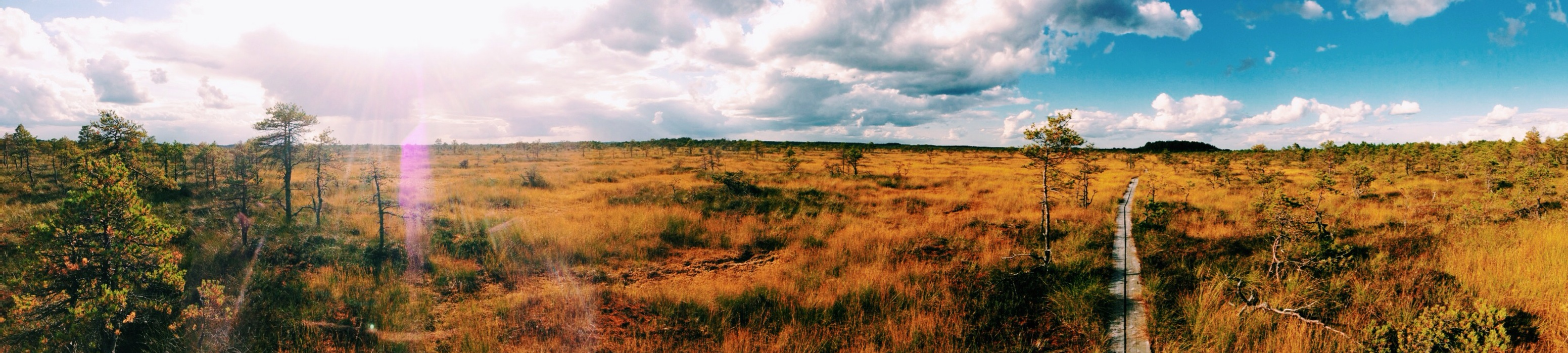 Panorama image of Kakerdaja bog in Järva county, Estonia